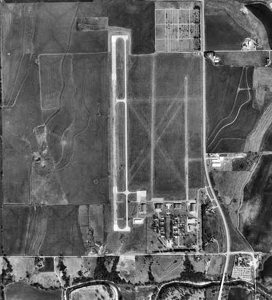 USGS orthophoto of Chickasaw Municipal Airport, Oklaholma